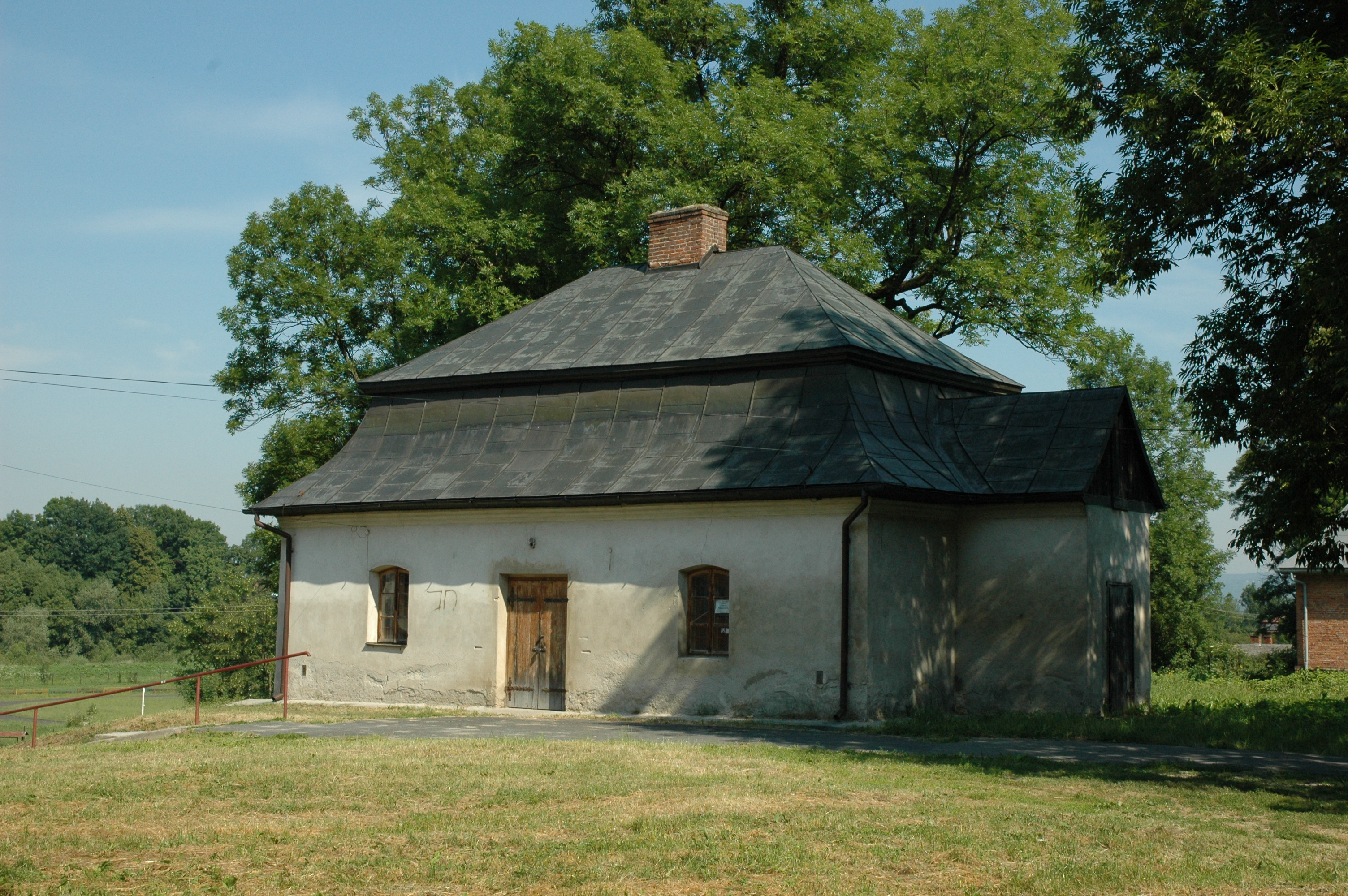 Manor House, servants quarters